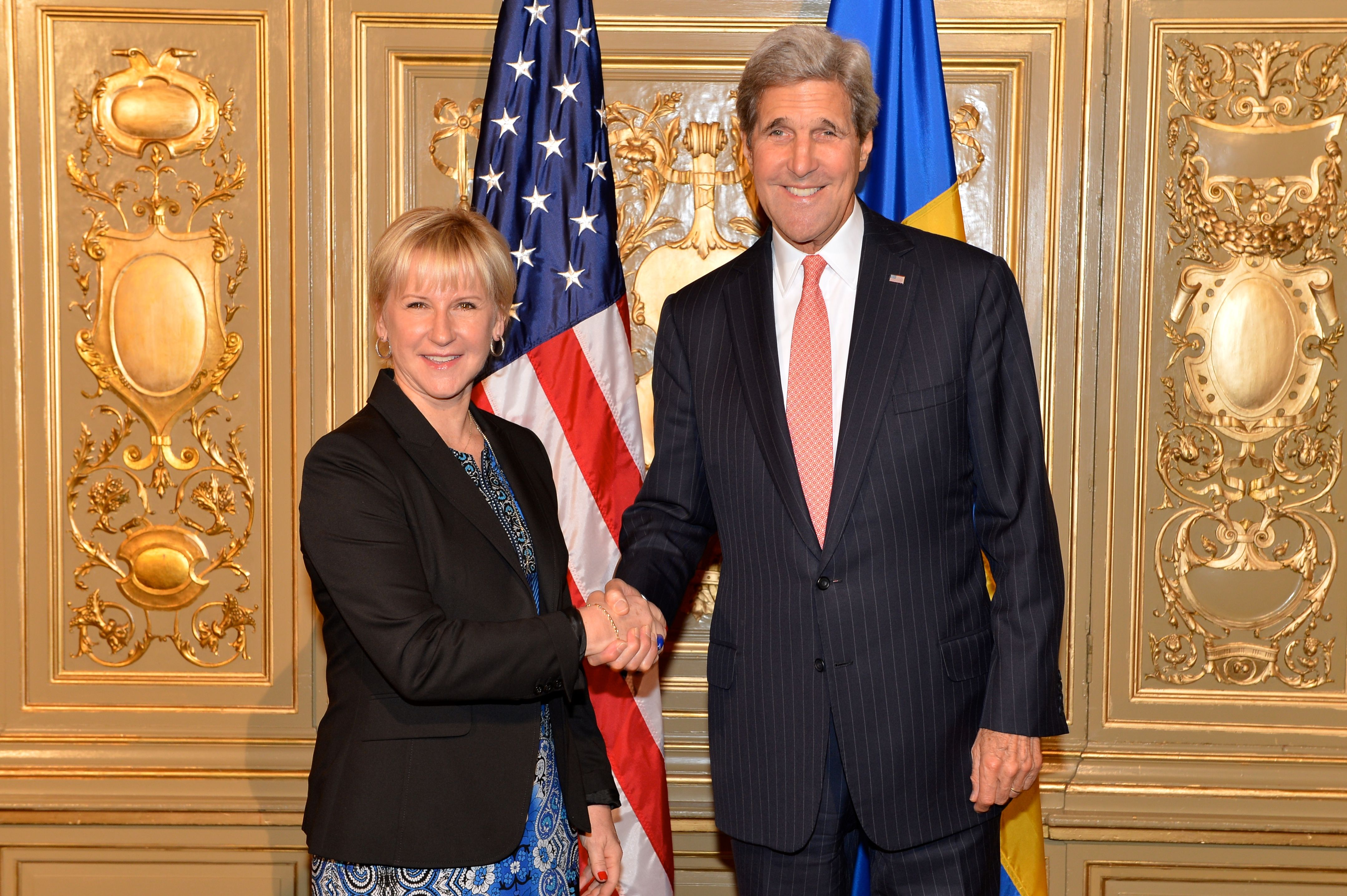 U.S. Secretary of State John Kerry poses for a photo with Swedish Foreign Minister Margot Wallström before the counterparts co-hosted the Ministerial on Gender Based Violence in Humanitarian Emergencies, on the sidelines of the 70th Regular Session of the UN General Assembly in New York, New York, on October 1, 2015. [State Department photo/ Public Domain]